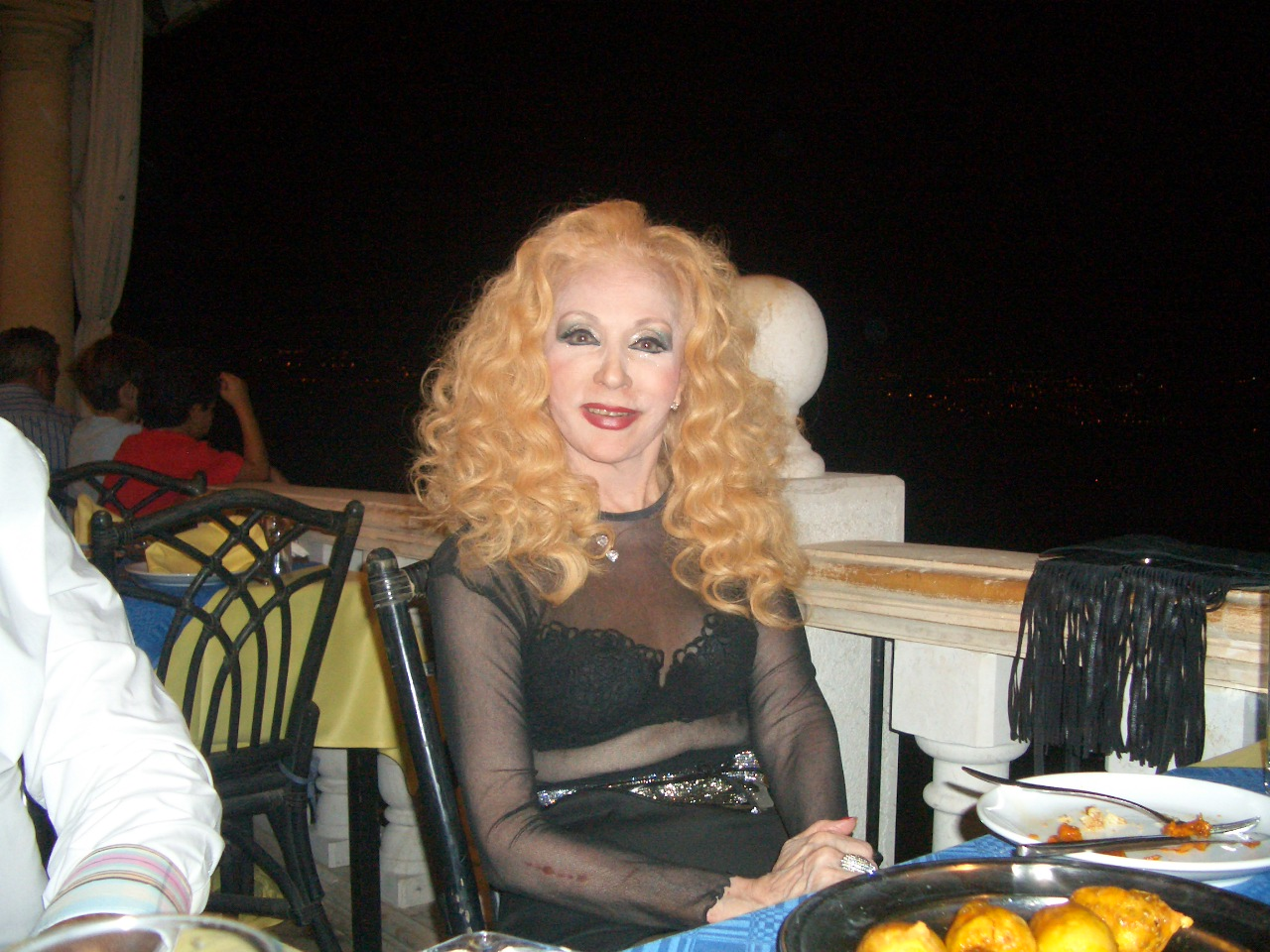 Lebanese singer Sabah seen in a restaurant in August 2007 close to Beirut.